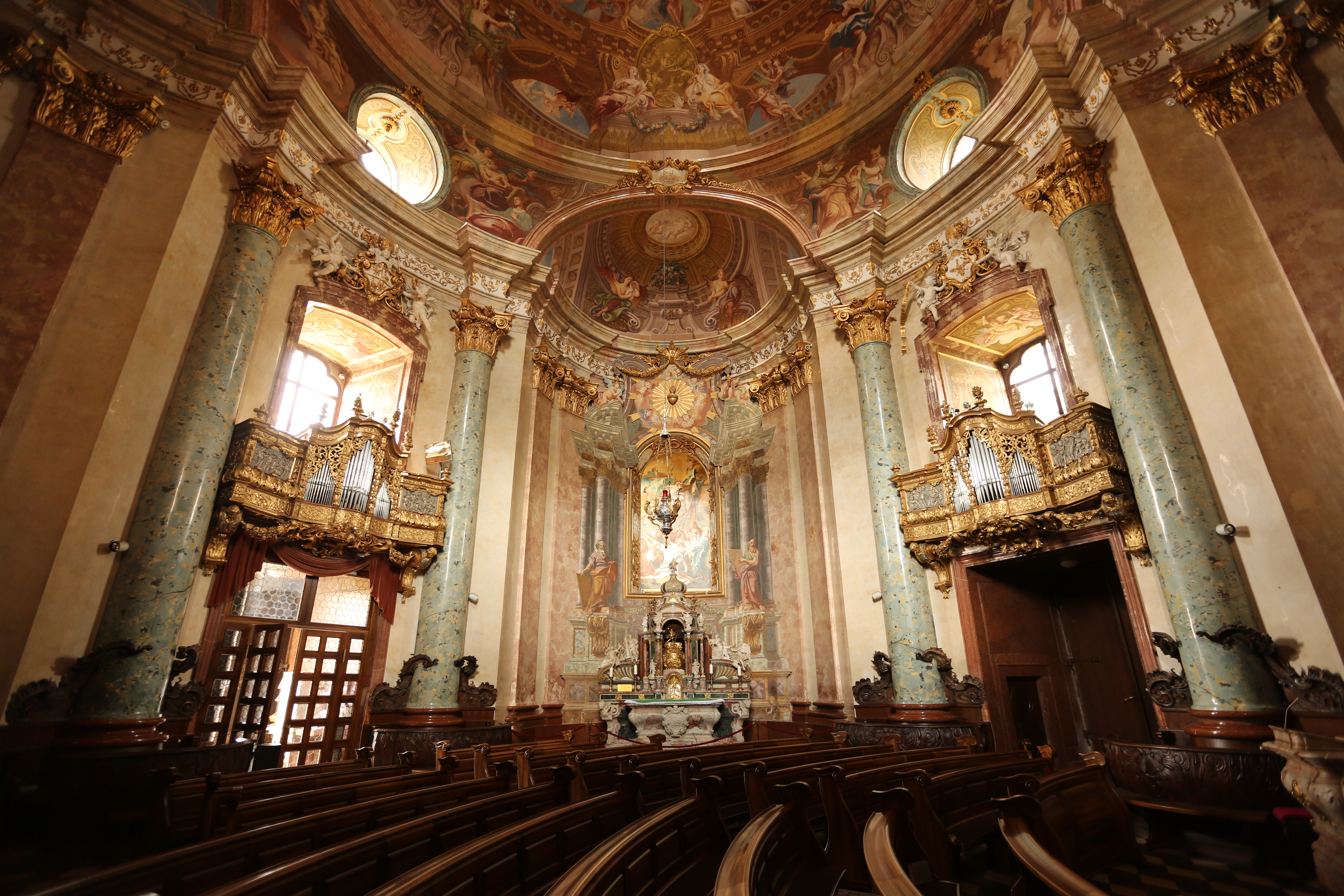 Interior of the church Zur Heiligen Dreifaltigkeit in Stadl-Paura, Austria. Shown is one of the three altars. Two of the three entrances, each with an organ above. Benches are turned to the altar opposite of the entrance to the left that was the only open in the end of july